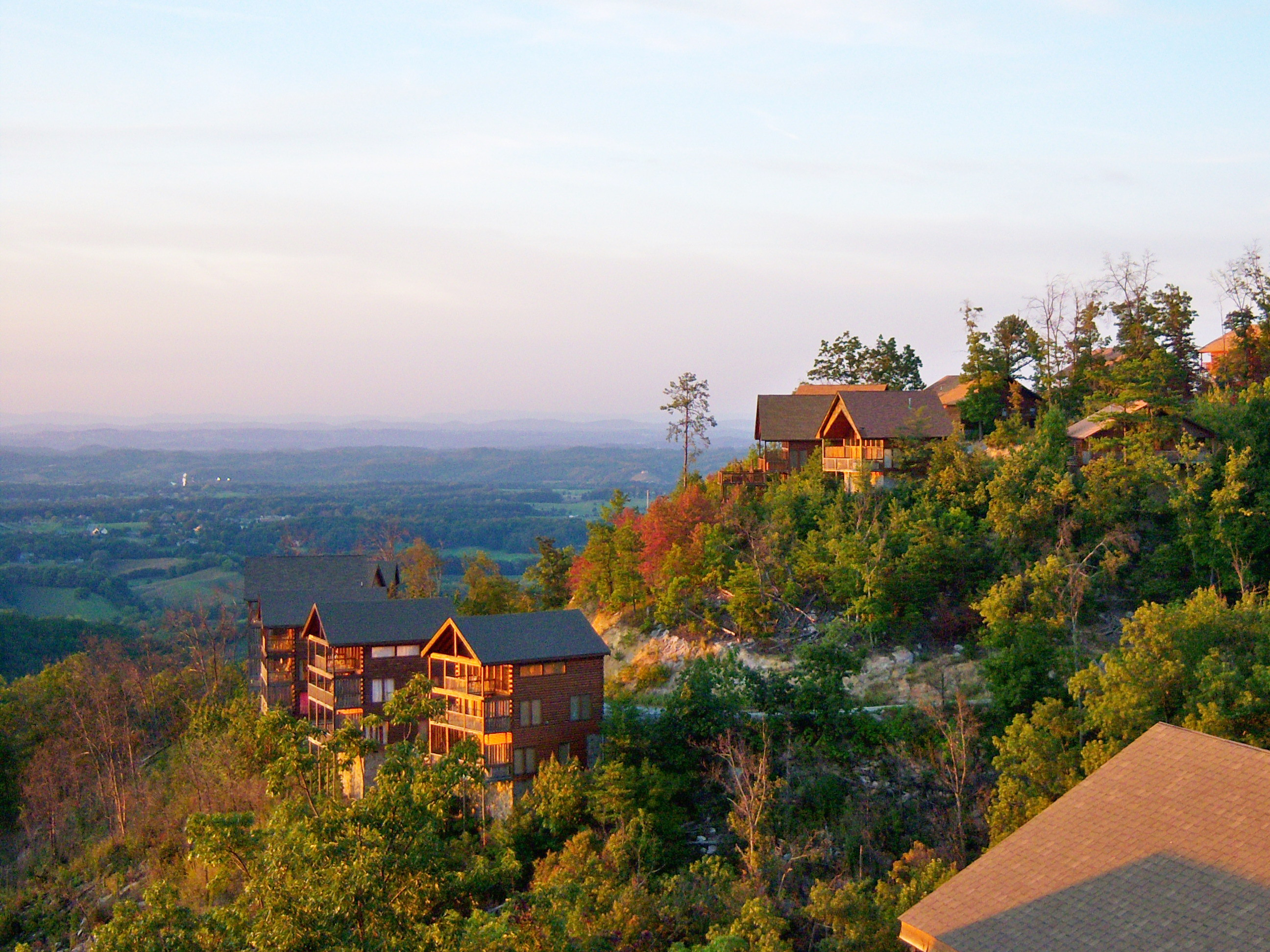 Rental cabins near the Great Smoky Mountains National Park in Sevier County, Tennessee.